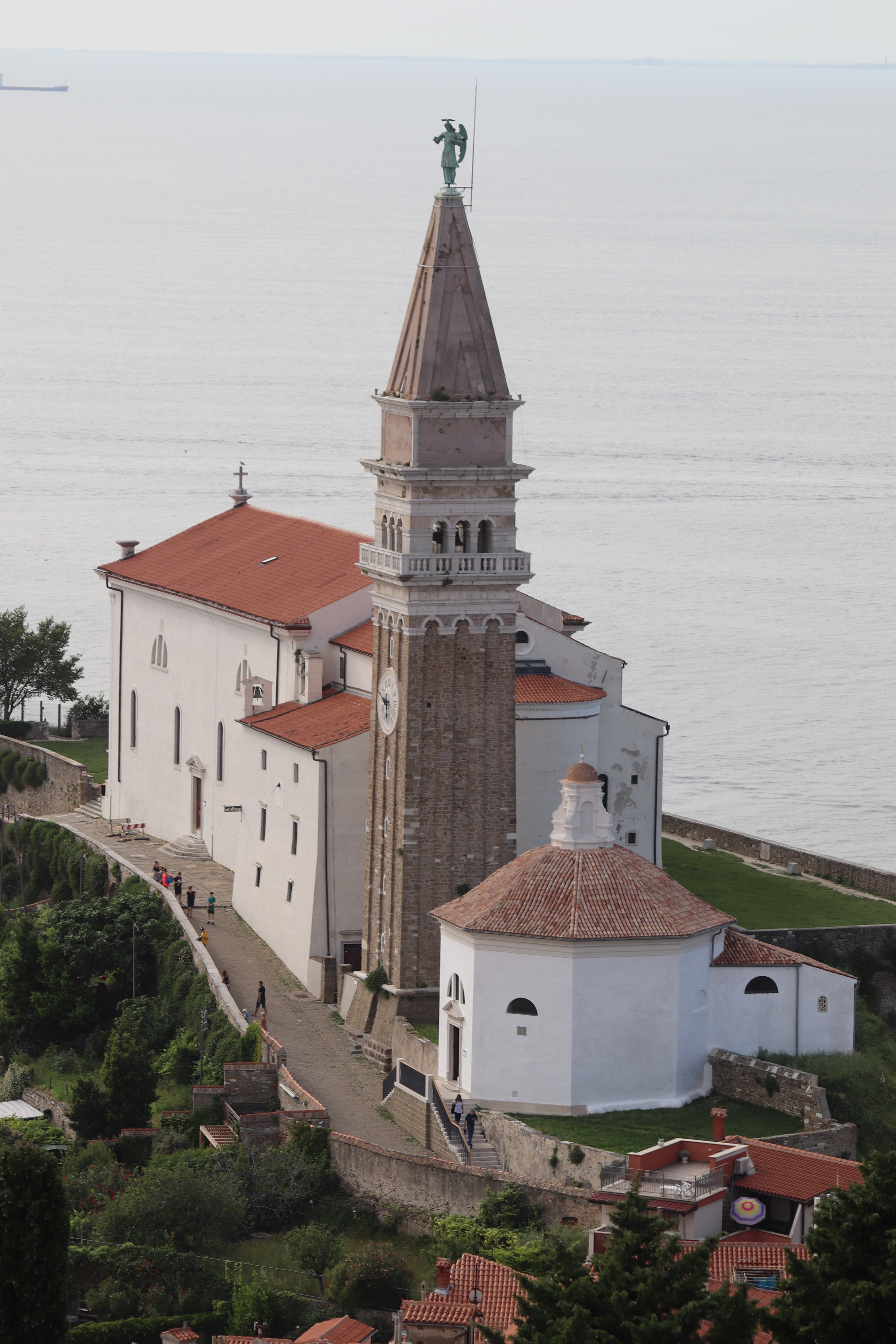 Piran - St. George's church